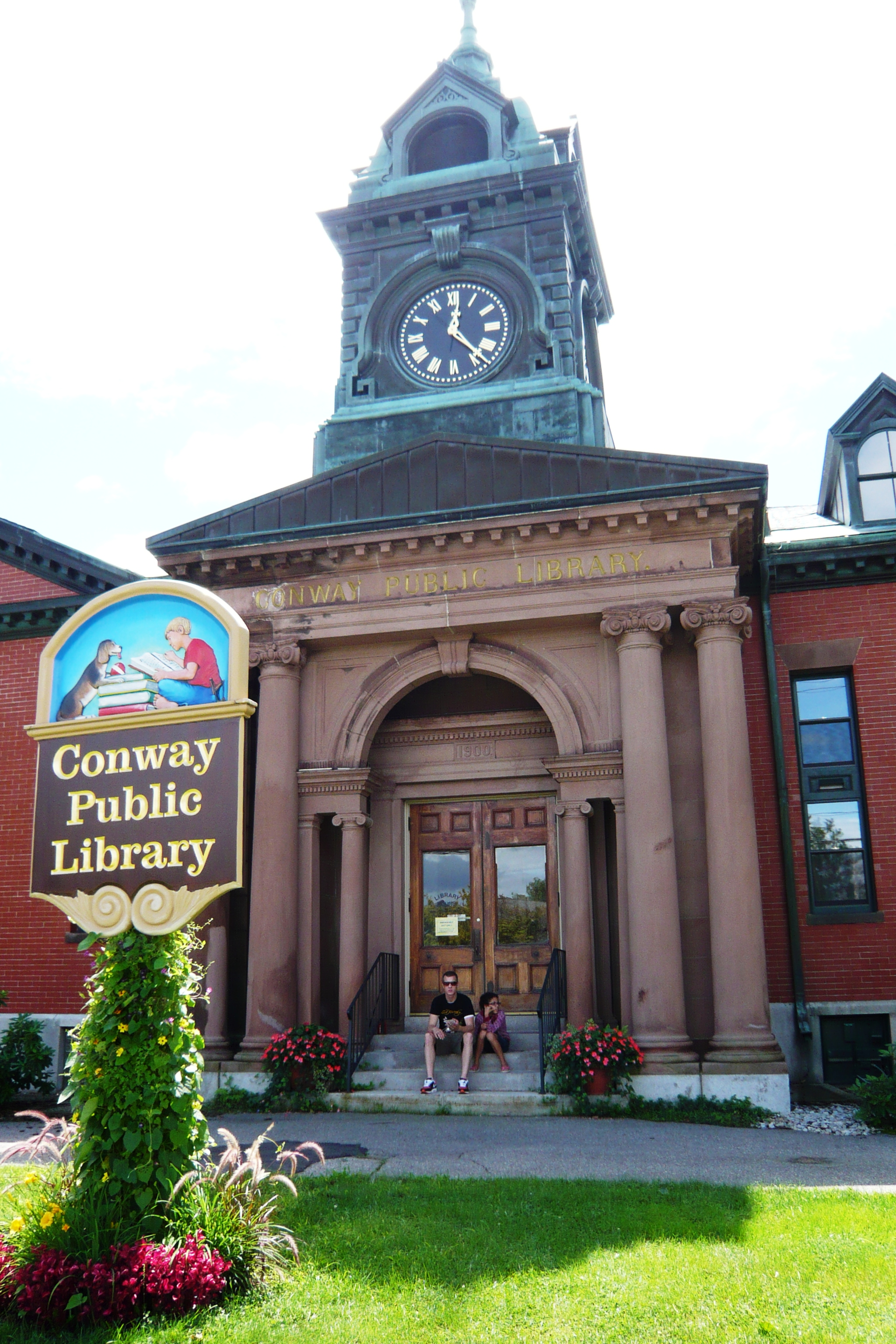 Conway town library, built in 1900